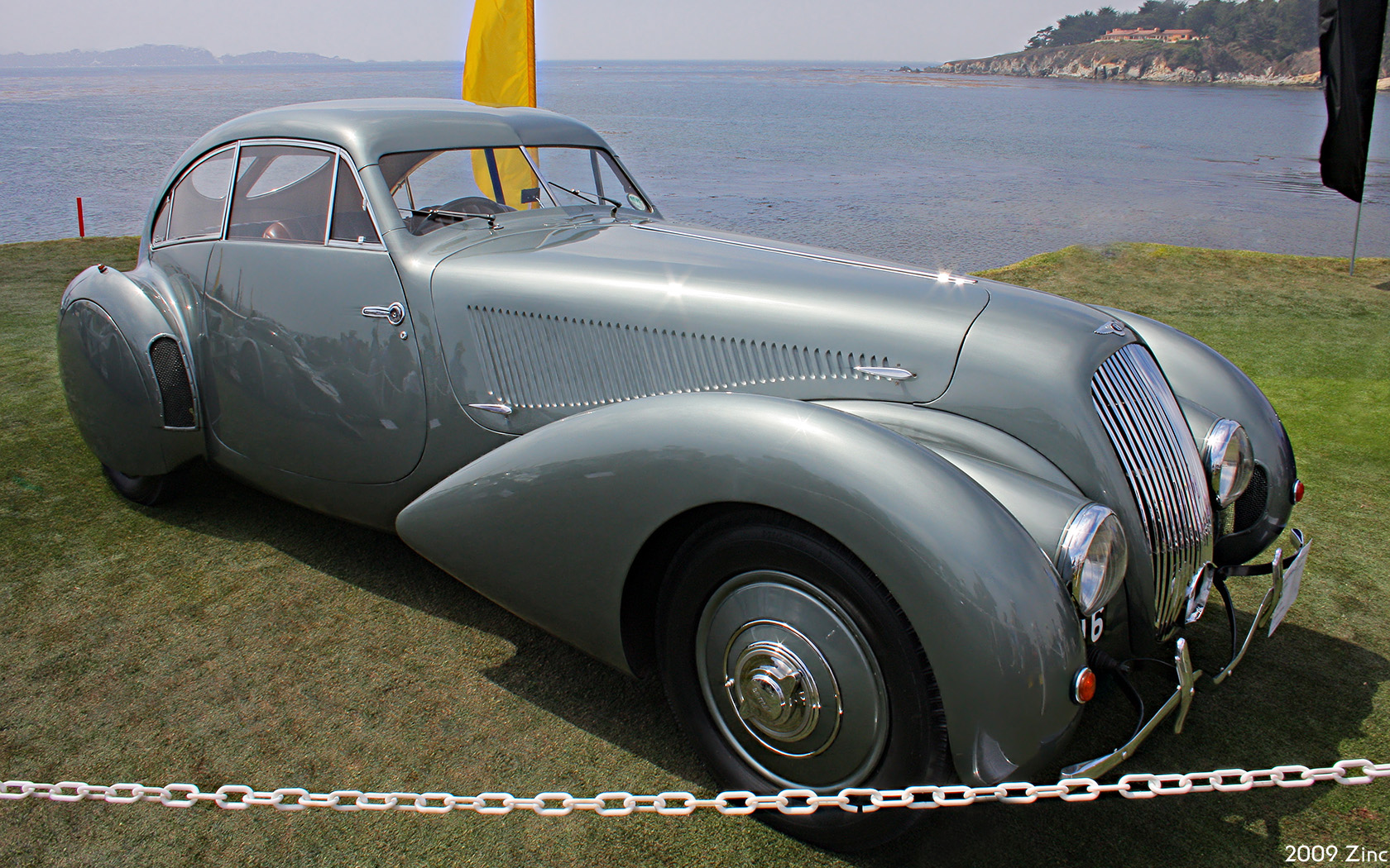 "This 4¼-litre Bentley built in 1939 was planned by Greek shipping tycoon André Embericos and built in Paris under the guidance of the company's development engineers. The coachwork designed by Georges Paulin was built by Marcel Portout. Comfort was sacrificed in order to obtain a shape as near as possible to the aerodynamic ideal. This 4¼-litre Bentley was fitted with a high rear-axle ratio and a four-speed gearbox with overdrive. After having driven 100,000 miles this car then competed in the 24 Hours of Le Mans in 1949, 1950 and 1951 and it lapped Montlhéry at 114.8 mph. Its best result at Le Mans was a sixth place finish in 1949 when driven by Soltan Hay and Tommy Wisdom" from the noticeboard by the car, Pebble Beach Concours d'Elegance, Aug 16, 2009